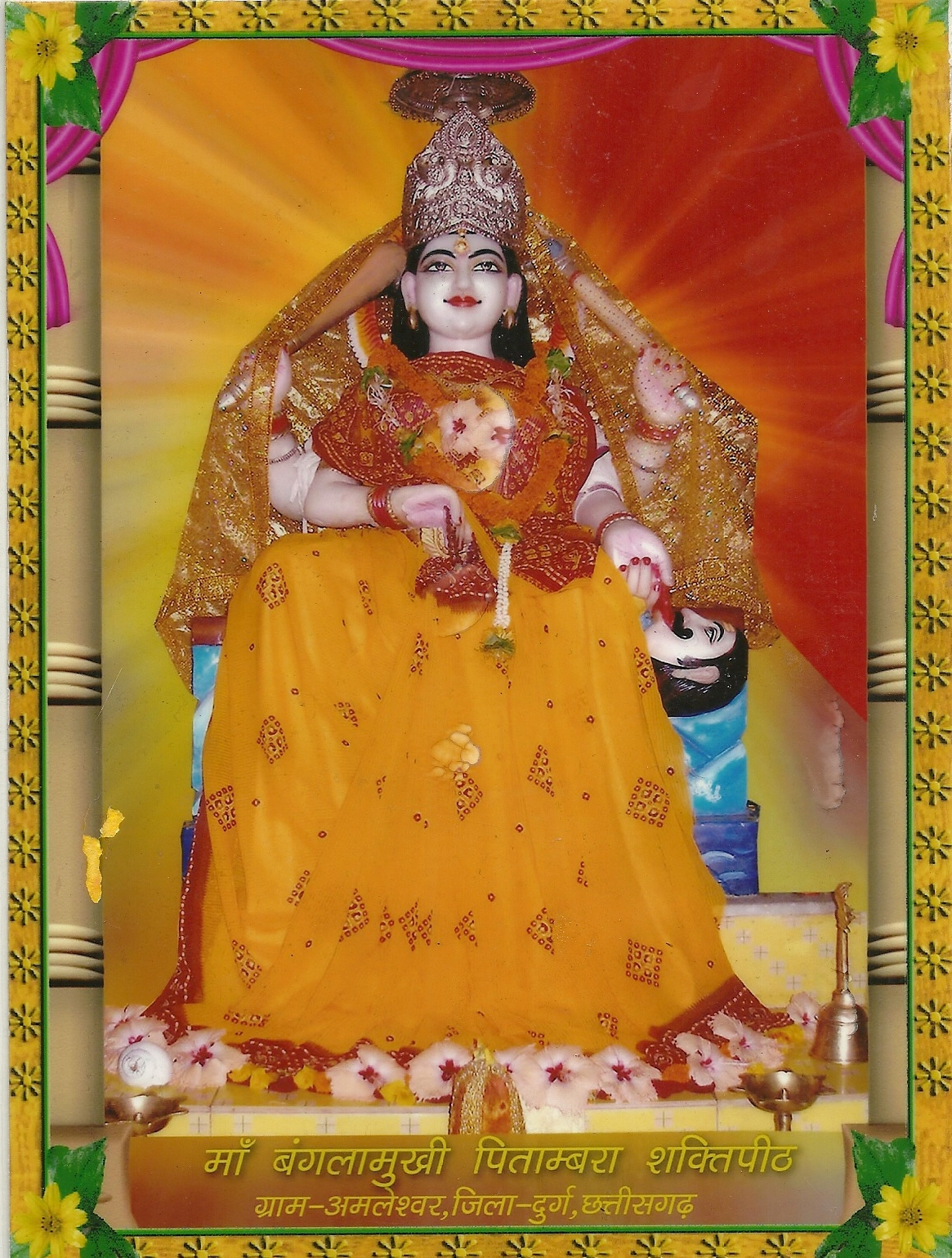 Photo of my Mandir माँ पीताम्बरा बगलामुखी मंदिर (अमलेश्वर)